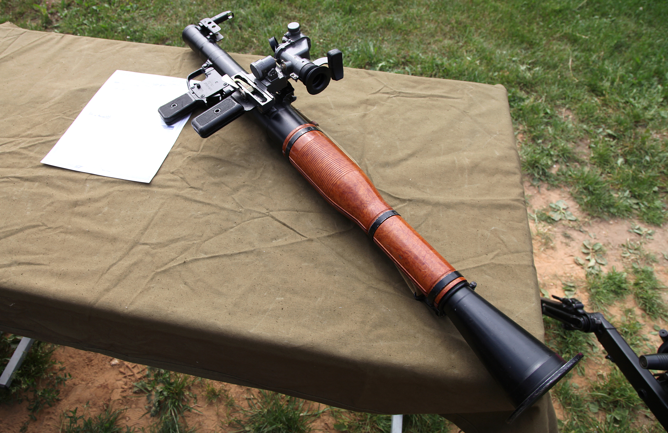 RPG-7V1 grenade launcher